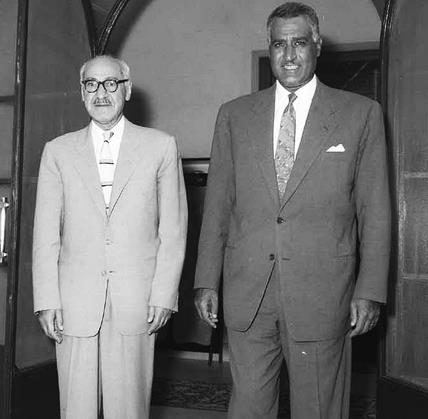 The exiled former Prime Minister of Iraq Rashid Ali al-Gaylani with Egyptian President Gamal Abdel Nasser in the latter's Cairo office